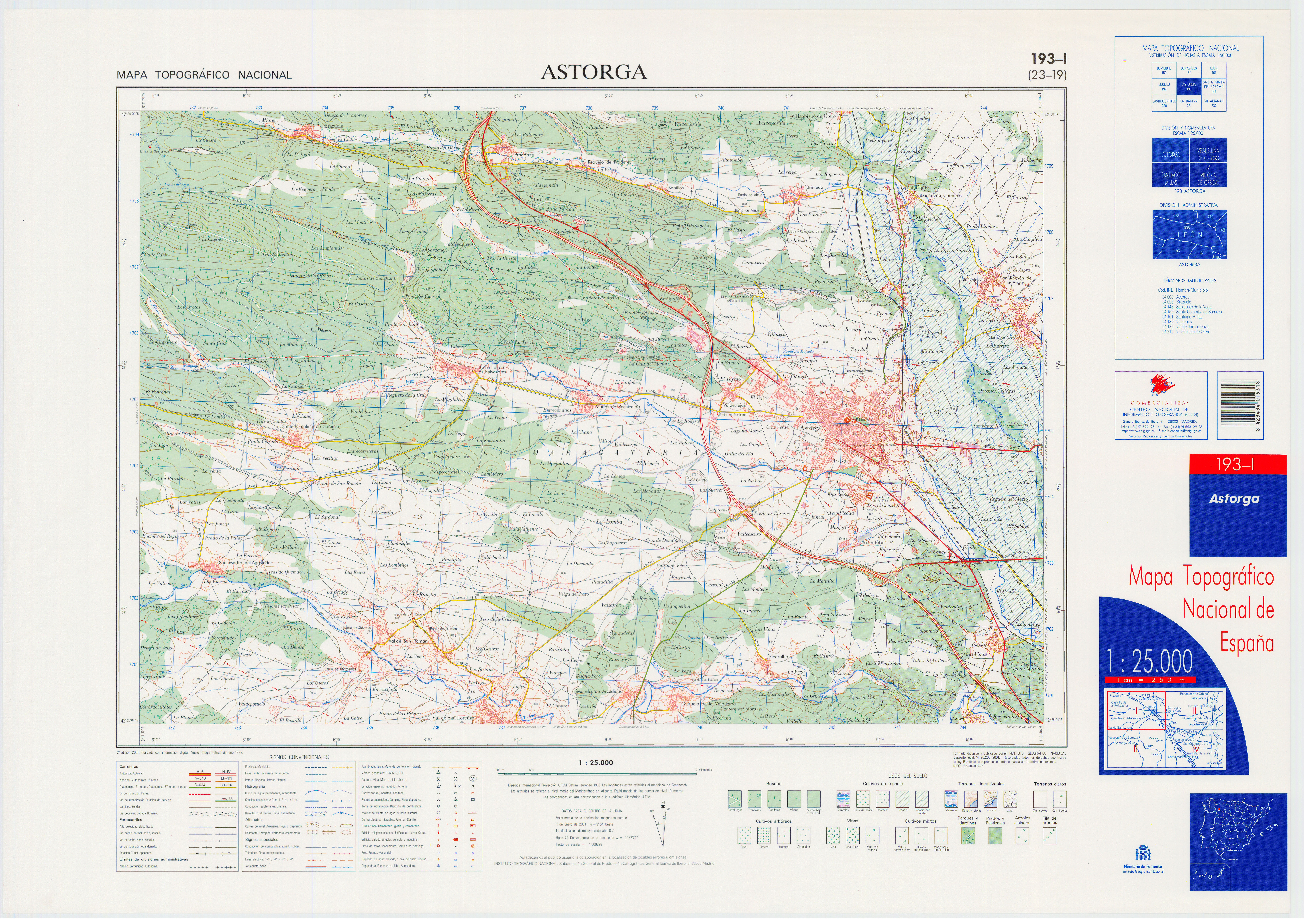 Fragment 0193c1 of the National Topographic Map of Spain in 2001 at a scale of 1:25000 printed and scanned with a resolution of 250 ppi. It shows Astorga.